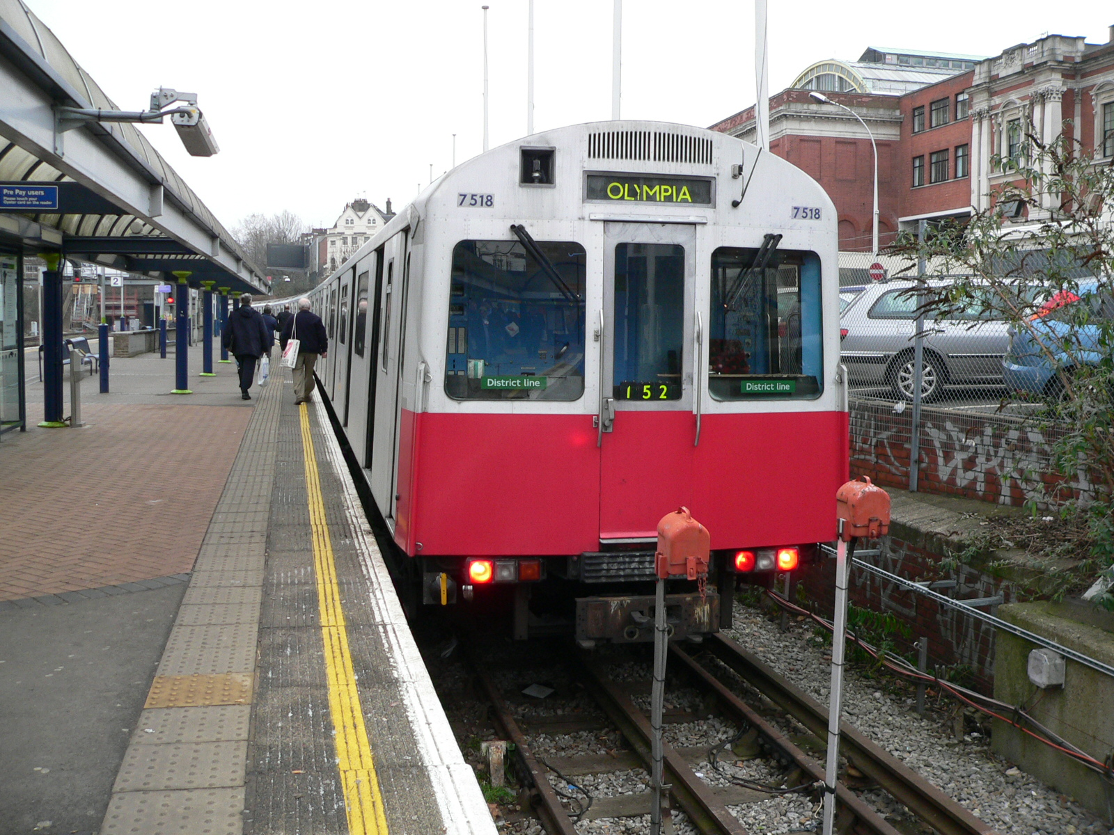 A London Underground D-stock EMU at platform 1 at Kensington Olympia station in West London, at one end of the 3-station District Line shuttle service between here and High Street Kensington via Earl's Court.